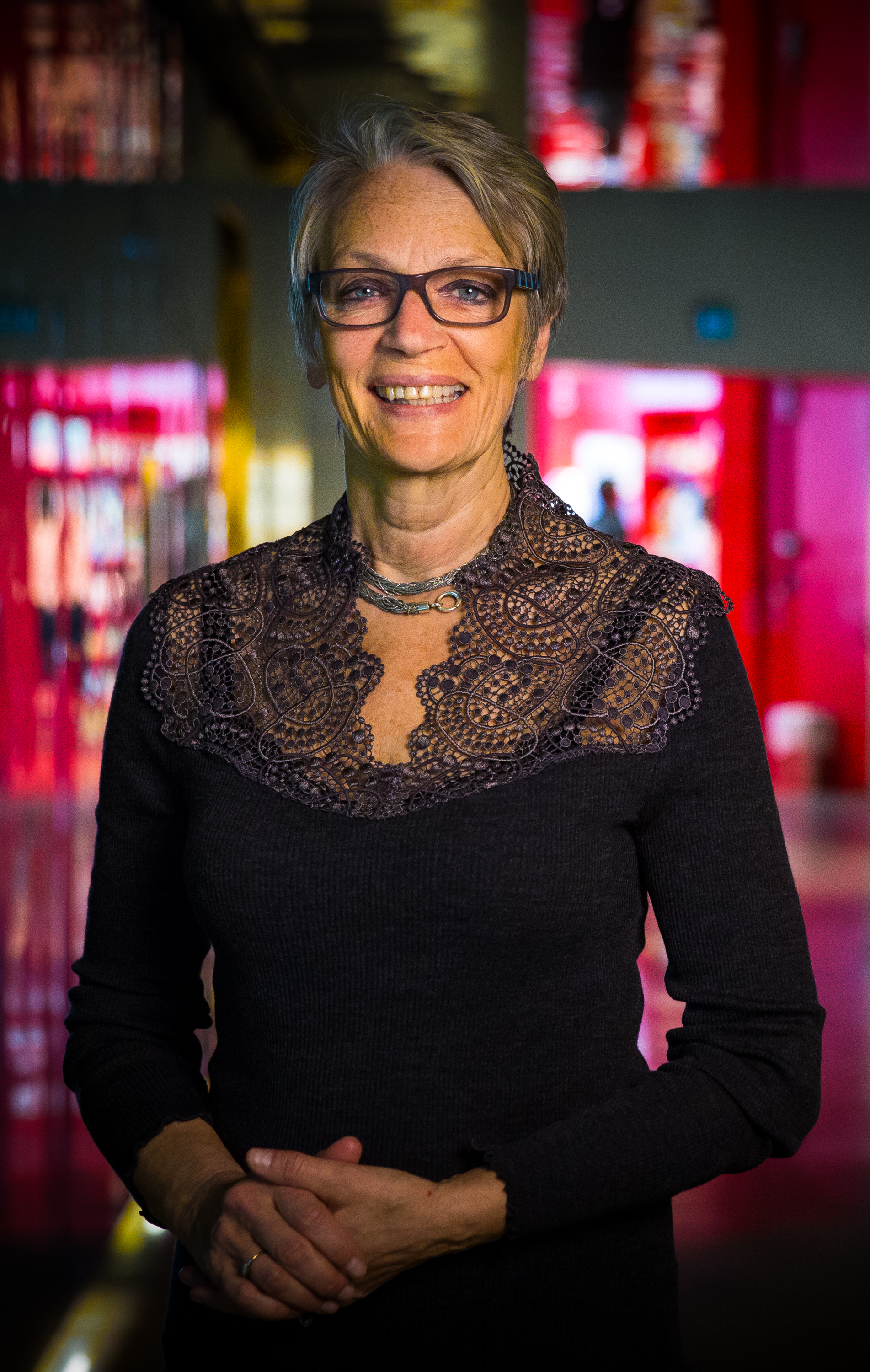 Portraits of director Bente Erichsen, spring 2015.